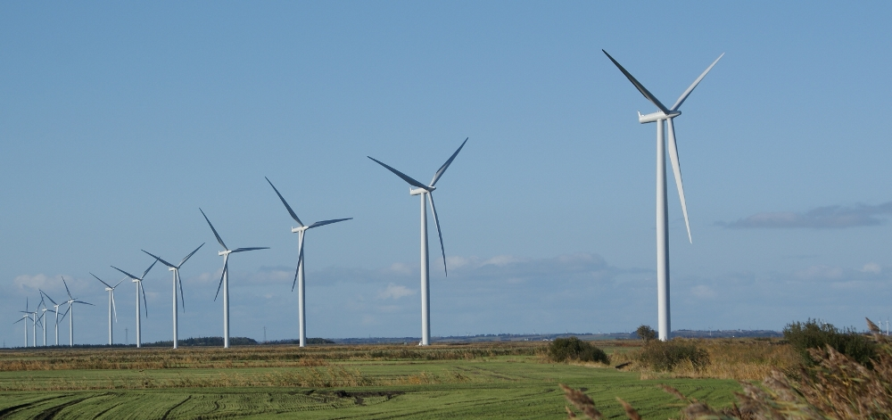 Windturbines Nørrekær enge, Denmark, October 2009